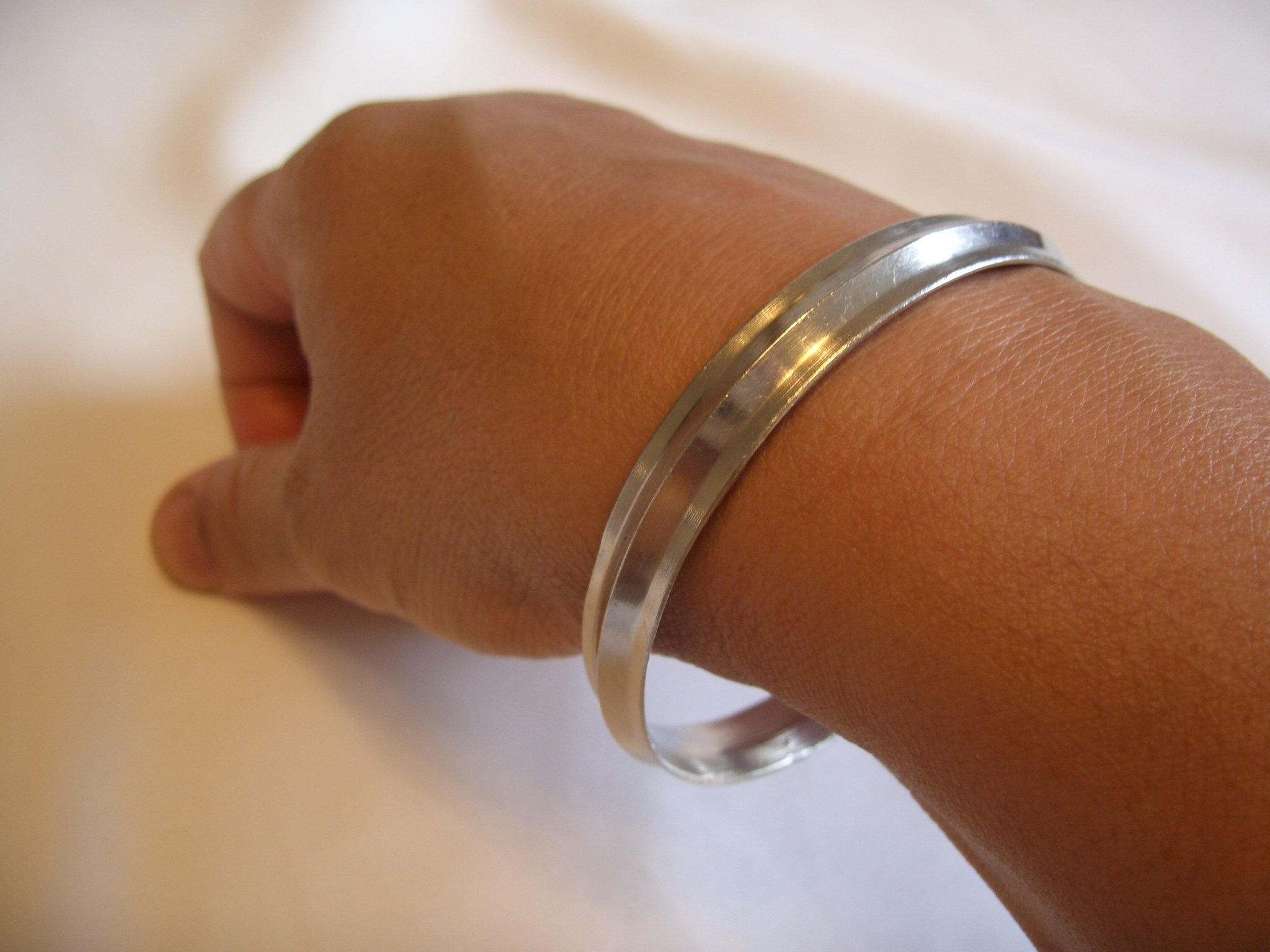 Sikhism Related Photo of Steel Kara - one of five articles of faith.